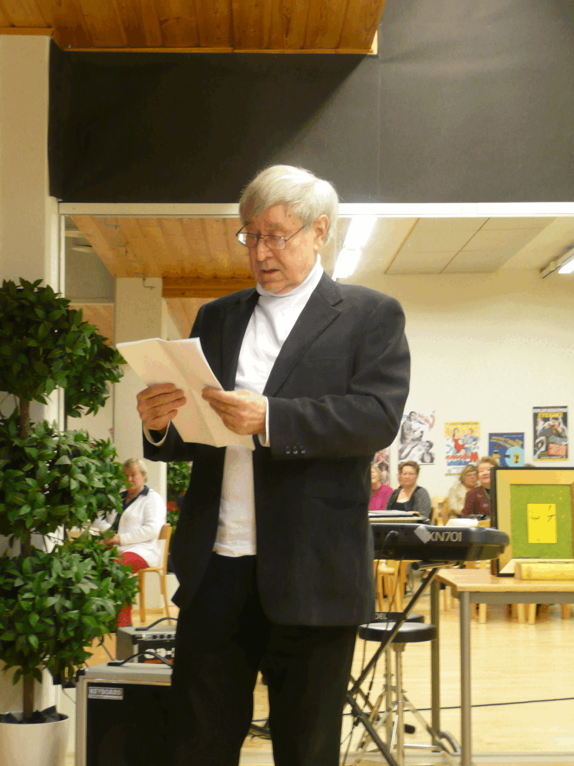 Finnish author Hannu Salama reading his poems at Sumelius Club in Tampere November 5, 2008.